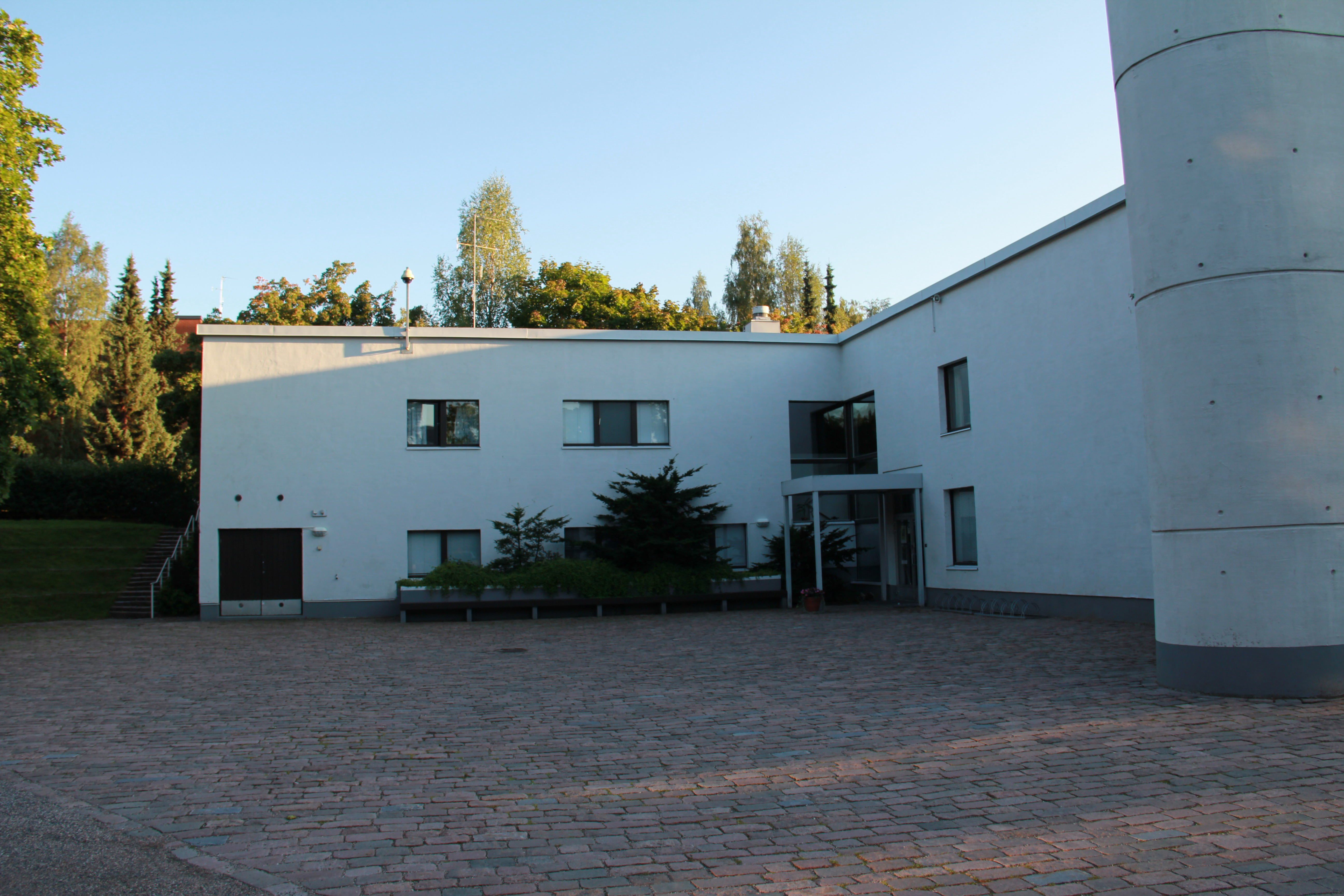 Maunula church, Helsinki, Finland. Architect Ahti Korhonen, completed 1980.